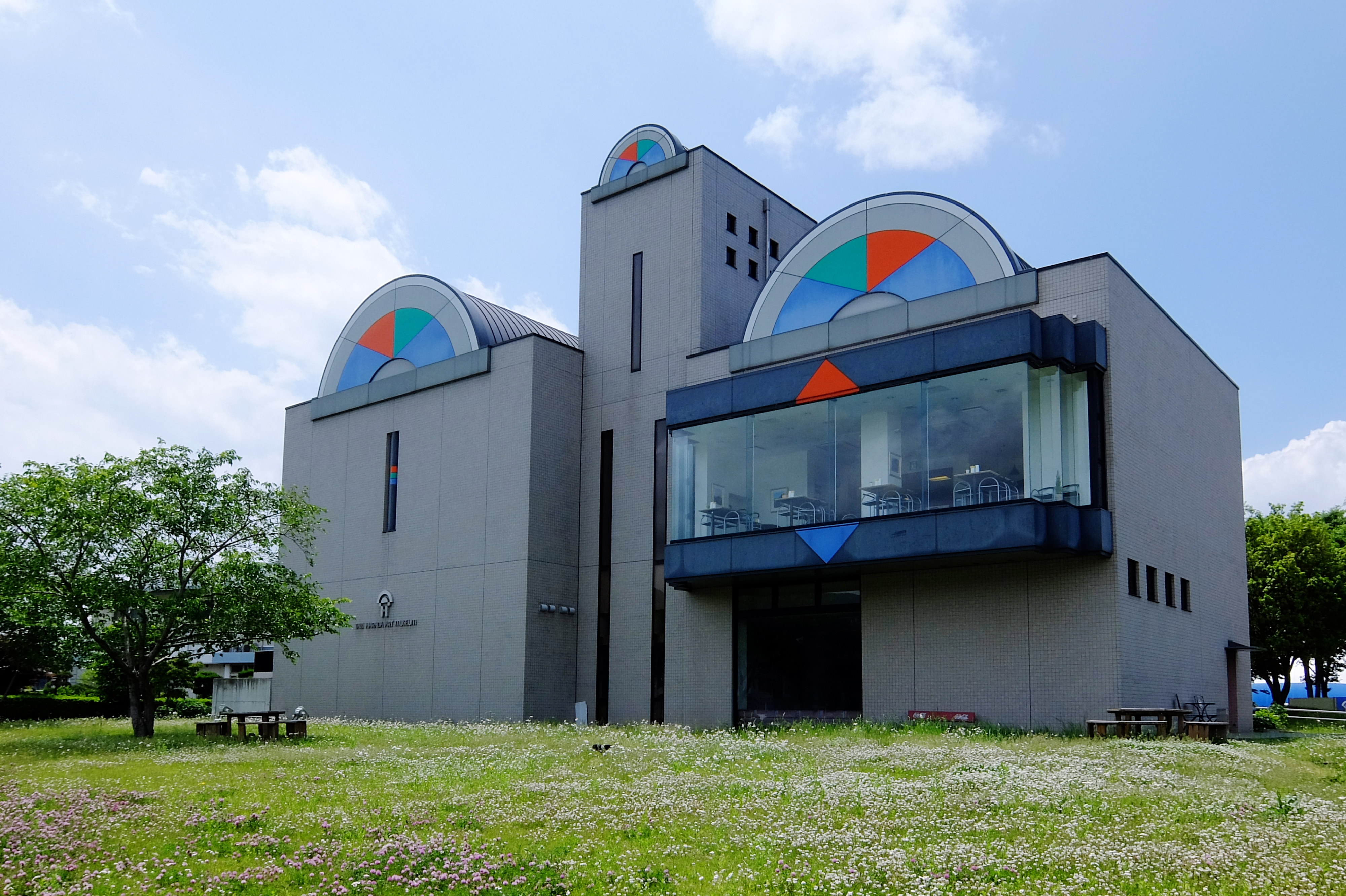 Taizi Harada Art Museum in Suwa, Nagano prefecture, Japan.